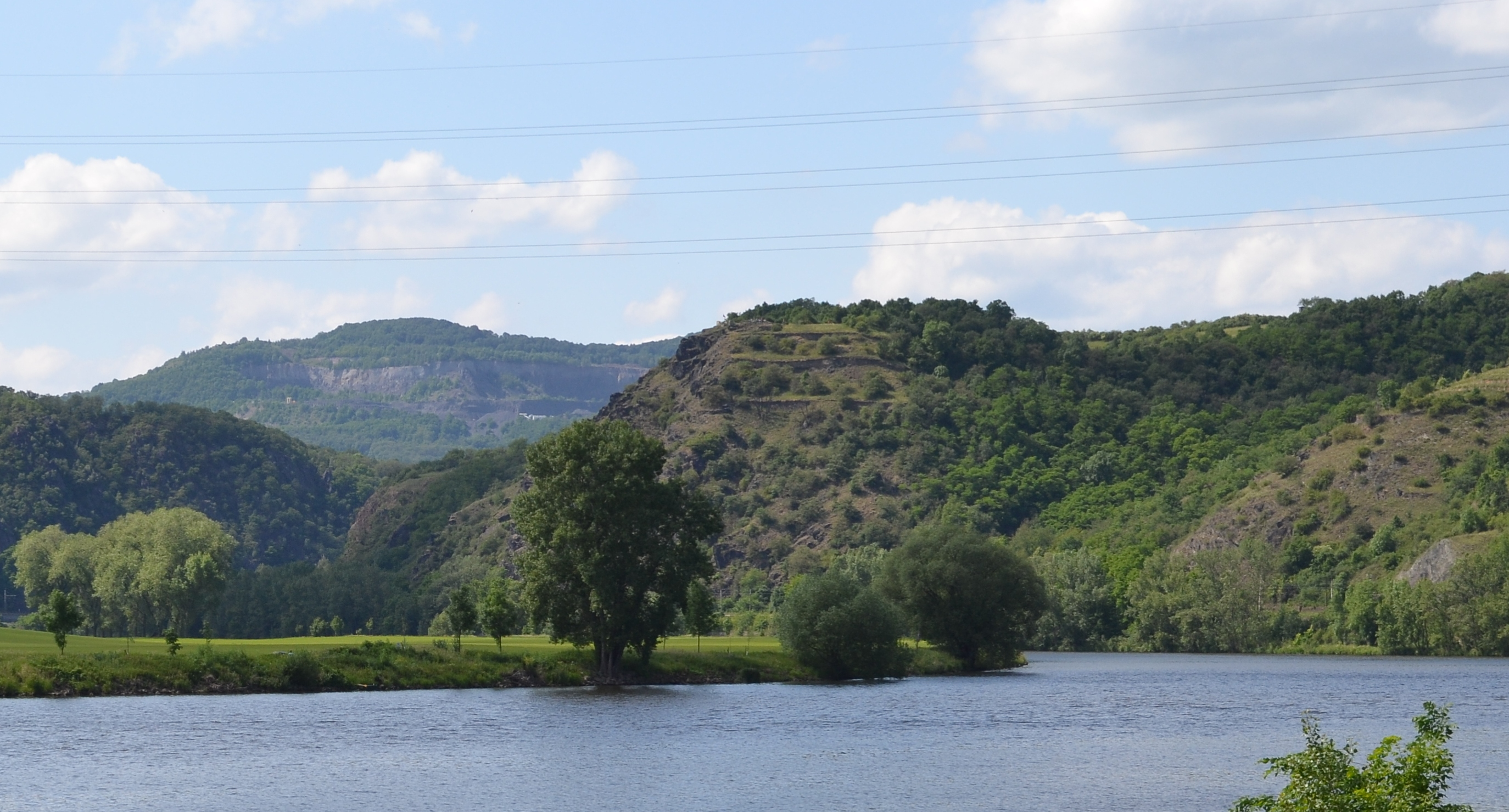 Nature reserve Kalvárie near Velké Žernoseky. Ústí nad Labem region, Czech Republic.